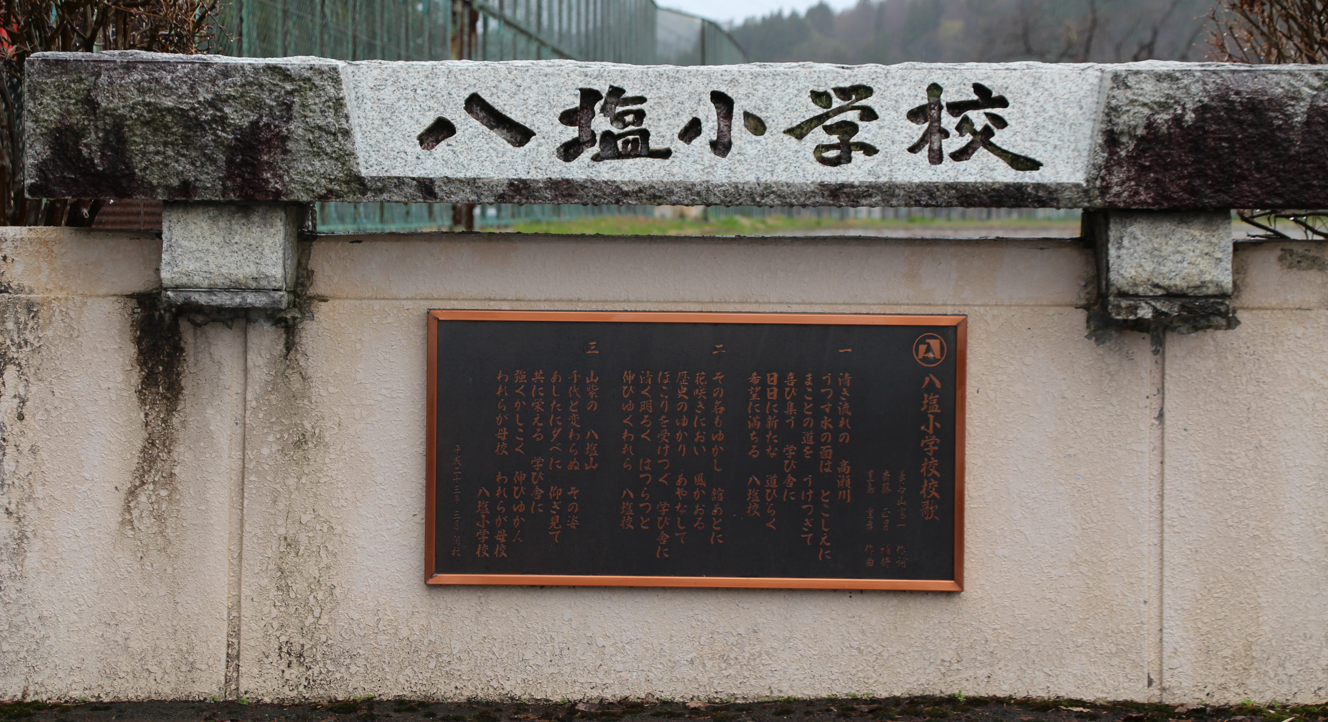 Epigraph of Yashio elementary school. Taken on May 2, 2013.